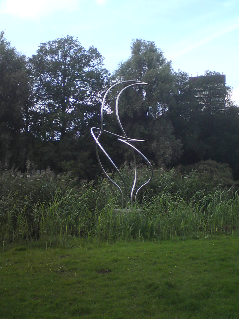 A sculpture in the Oosterpark in Amsteredam